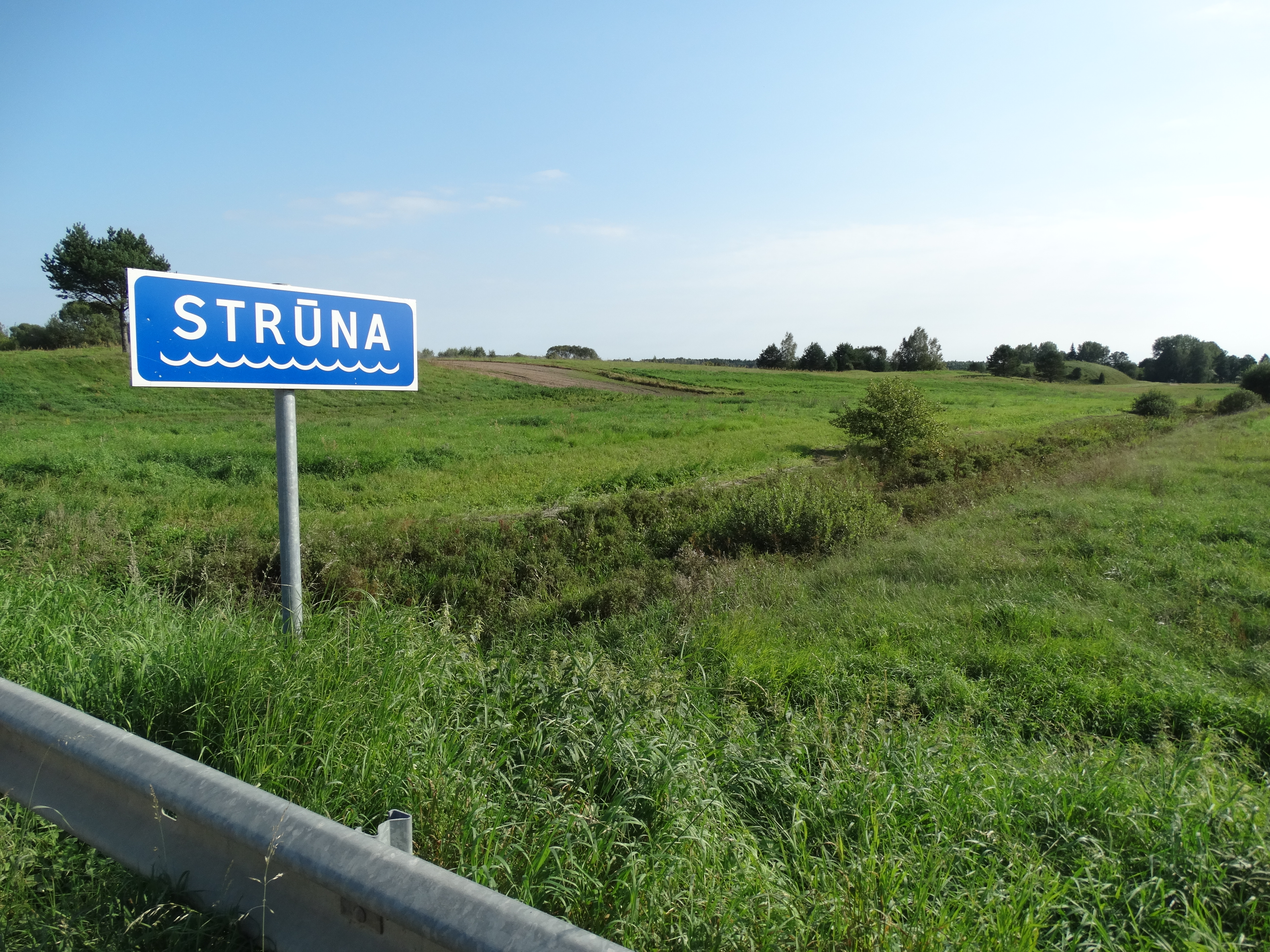 Strūna River by Varniškė, Švenčionys district, Lithuania